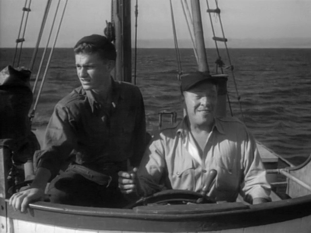 Jeffrey White (Roland Winters) and Ted White (Roddy McDowall) in Killer Shark (1950)